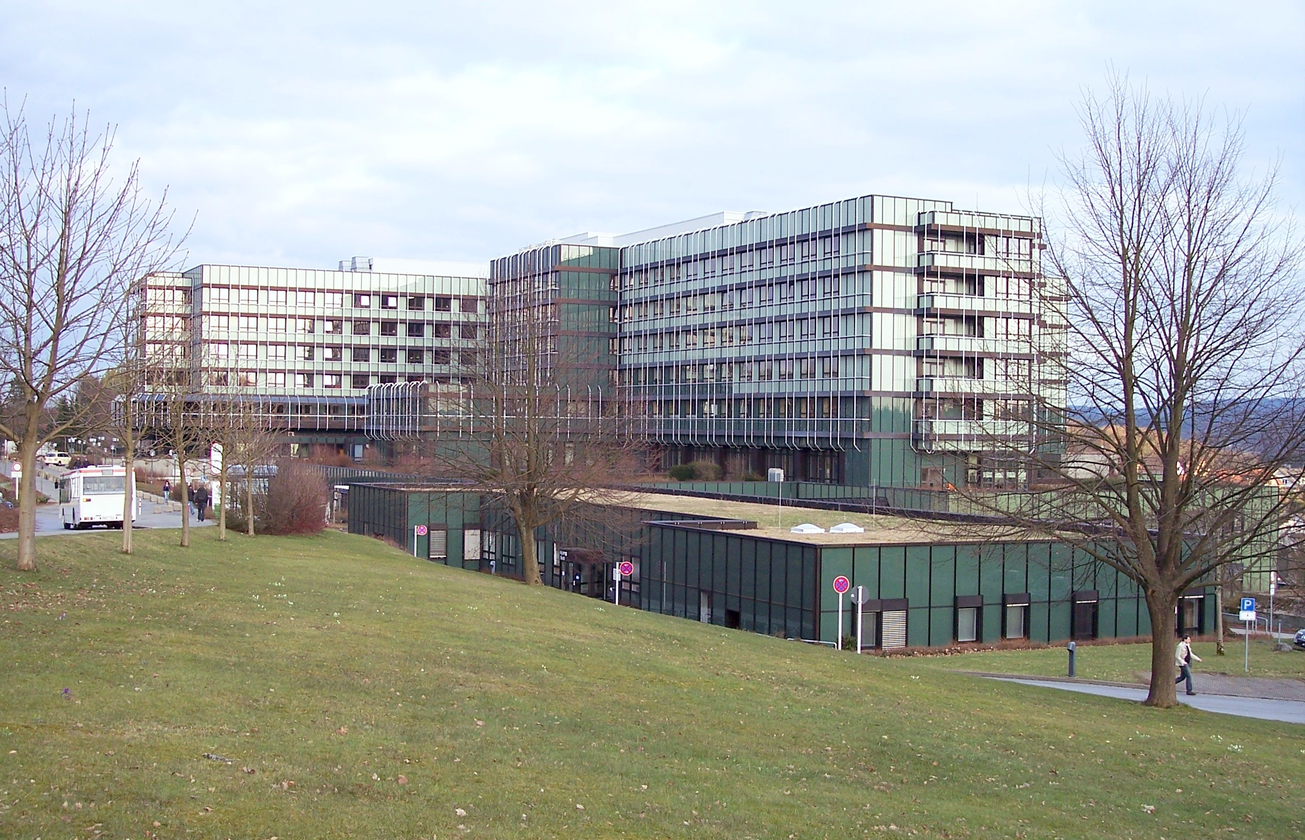 Lüdenscheid, main hospital in Hellersen